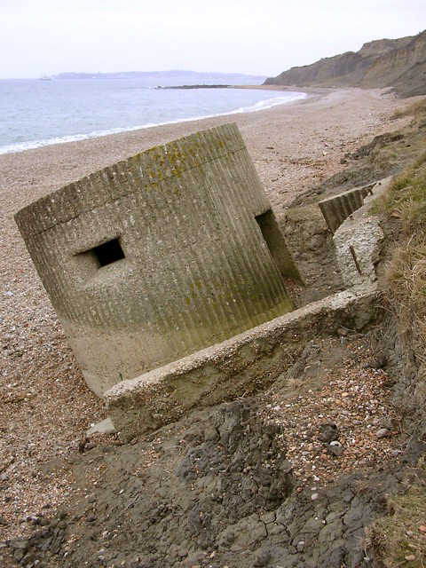 Derelict pillbox east of Redcliff Point, Weymouth Bay. This Second World War pillbox has slumped onto the beach and is part filled with sand and shingle. This is a remote stretch of beach between Redcliff Point (in the background) and Black Head, a difficult walk along the coast from Bowleaze Cove or a tricky slip down the muddy cliff from the coastal path above. The Isle of Portland can be seen in the distance across Weymouth Bay.